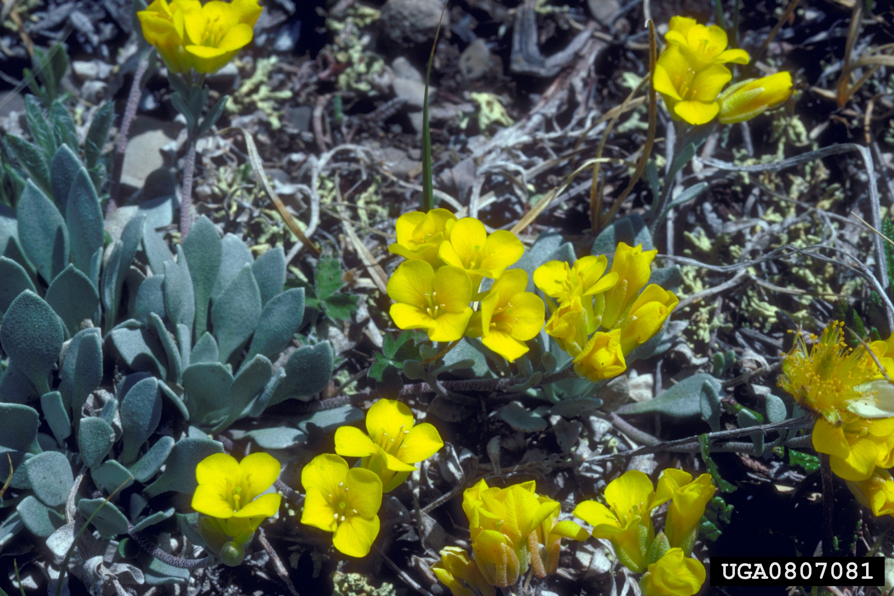 Physaria bellii - watermark cropped